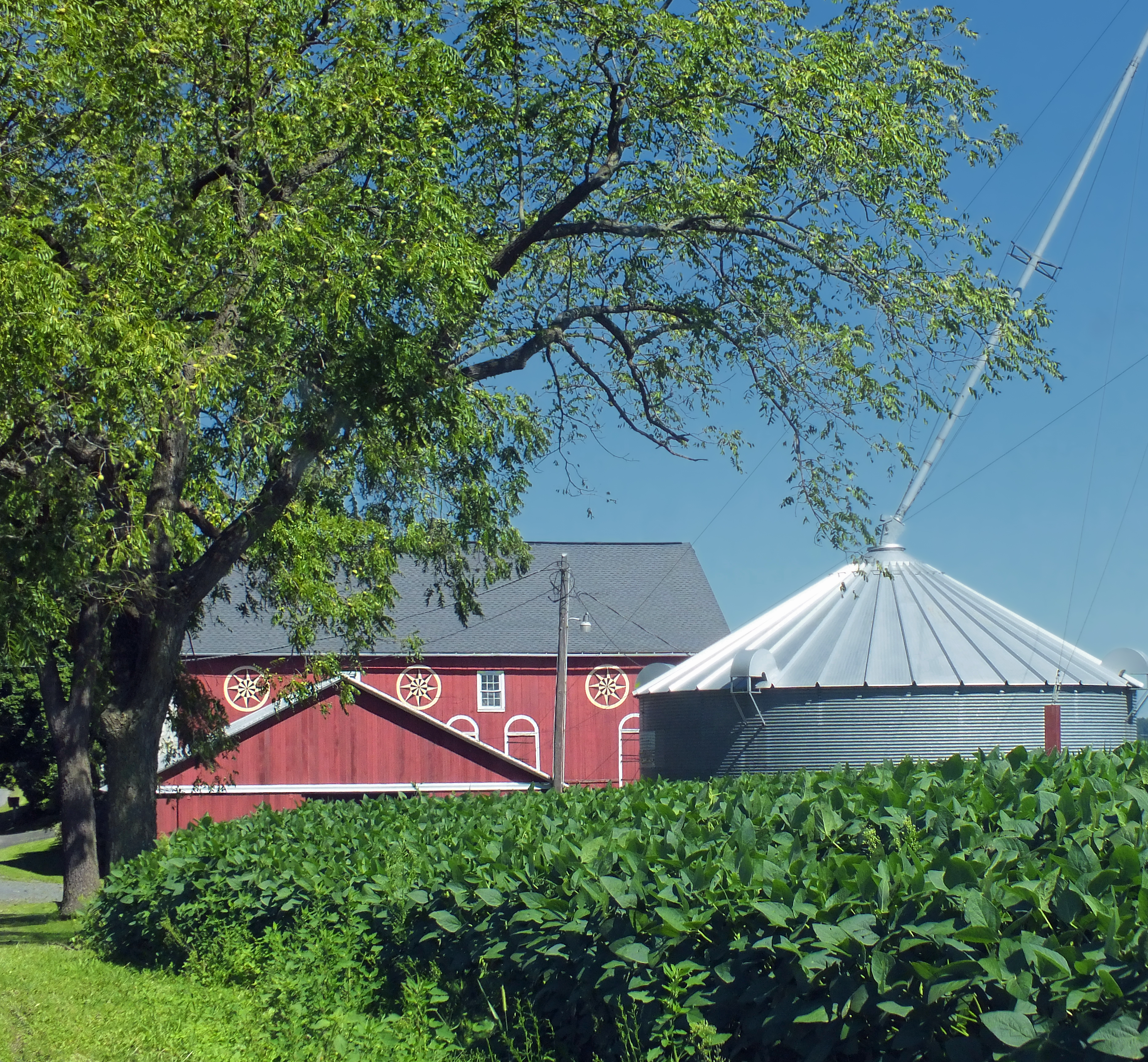 Pennsylvania Dutch farm, Longswamp Township, Berks County.